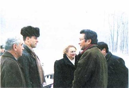 Shōzō Azuma, Parliamentary Vice-Minister for Foreign Affairs, participated in the monitoring mission for the elections to the State Duma in Russia on 1993. (For terms of use, see 法的事項 ｜ 外務省.)